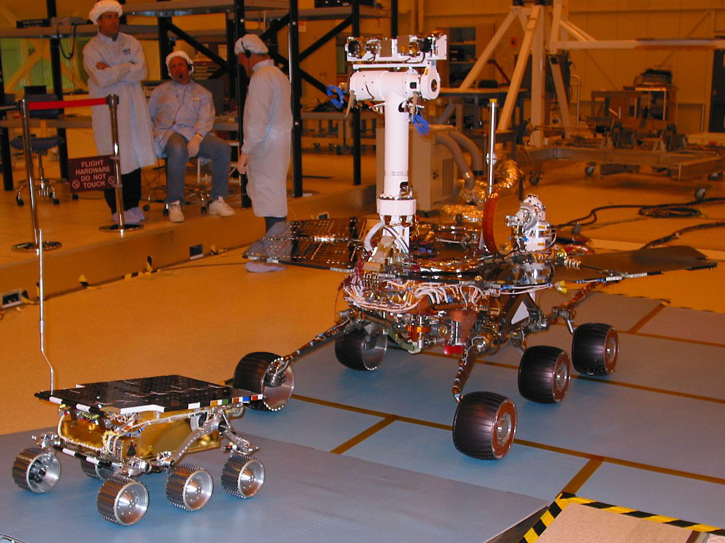 Mars Exploration Rover 2 (Spirit) stands next to a model of the Pathfinder mission's Sojourner rover.